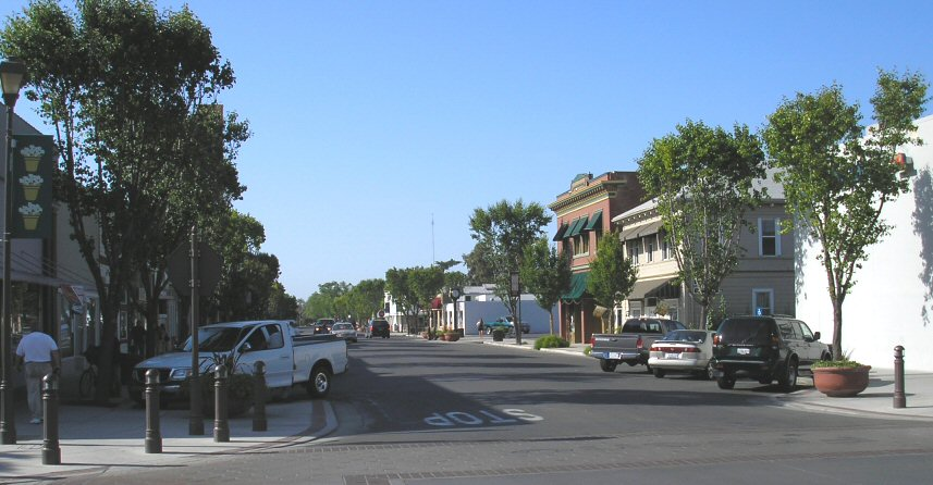 Photo by John Pilge. (Downtown Newman, California.)